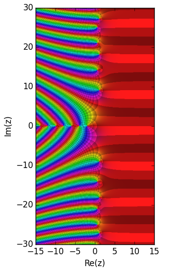 Color representation of the Dirichlet eta function. It is generated as a Matplotlib plot using a version of the Domain coloring method. [1]